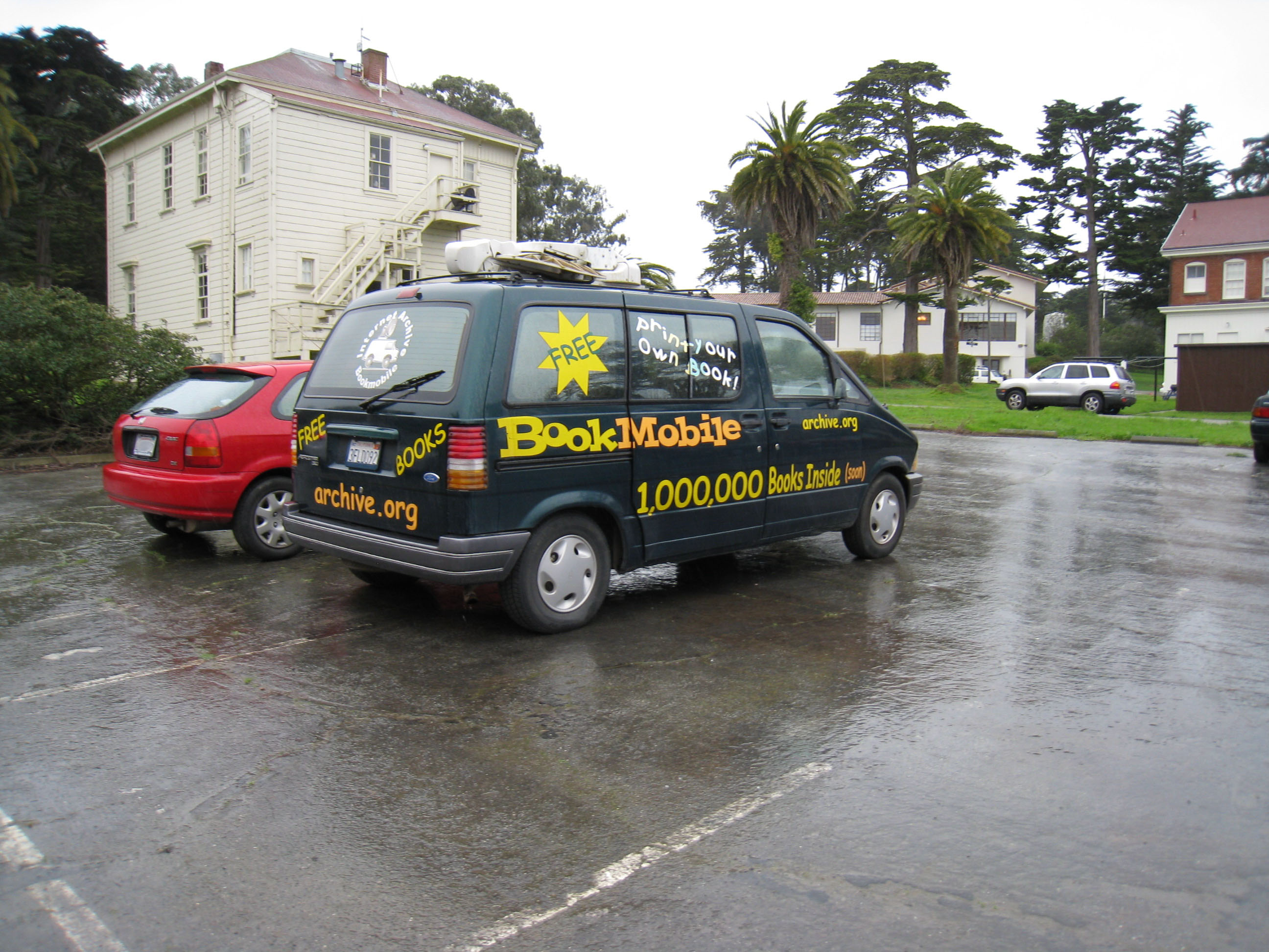 A bookmobile maintained by the Internet Archive, shown here parked in San Francisco, California. It contains a satellite connection for Internet access and a machine to print books inexpensively on demand.